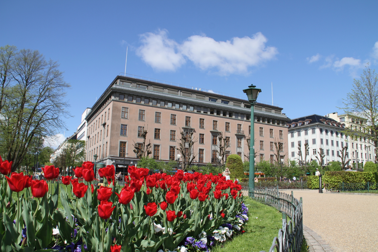 Handelens og sjøfartens hus i Bergen